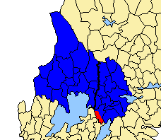 map of old county